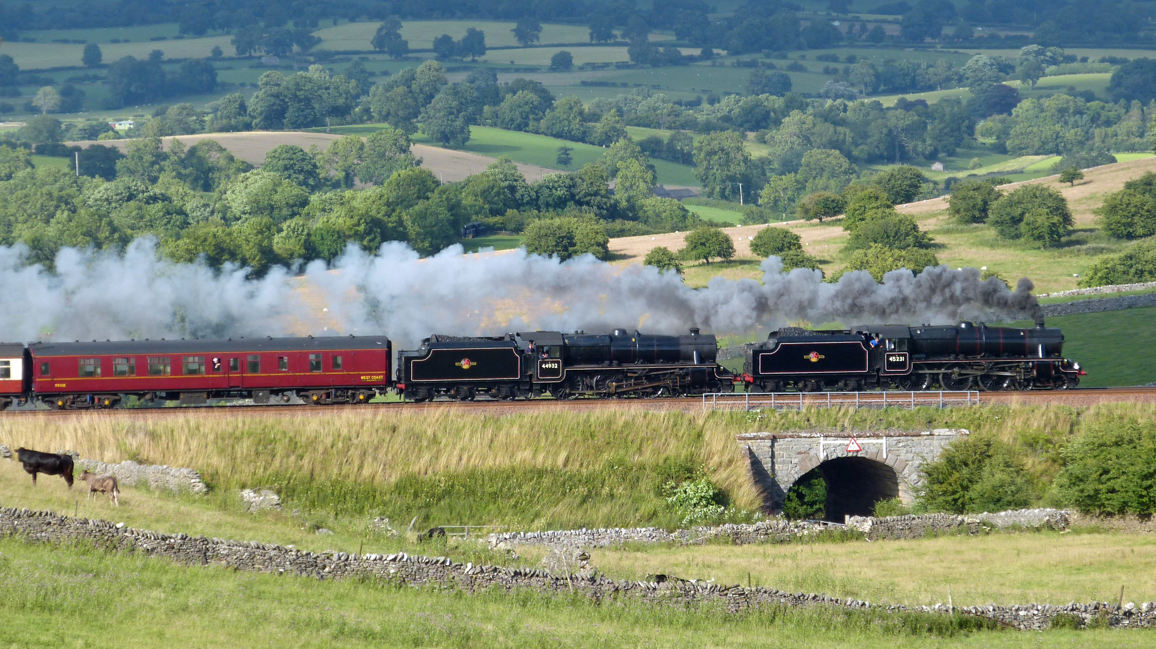 15 Guinea Special Near Waitby And the sun came out! The two black fives recreating the 1968 "last steam passenger service" throwing out the clag as they climb up for several miles at 1:100 to Ais Gill.